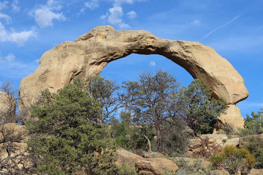 Cox Canyon Arch with Moon Rising